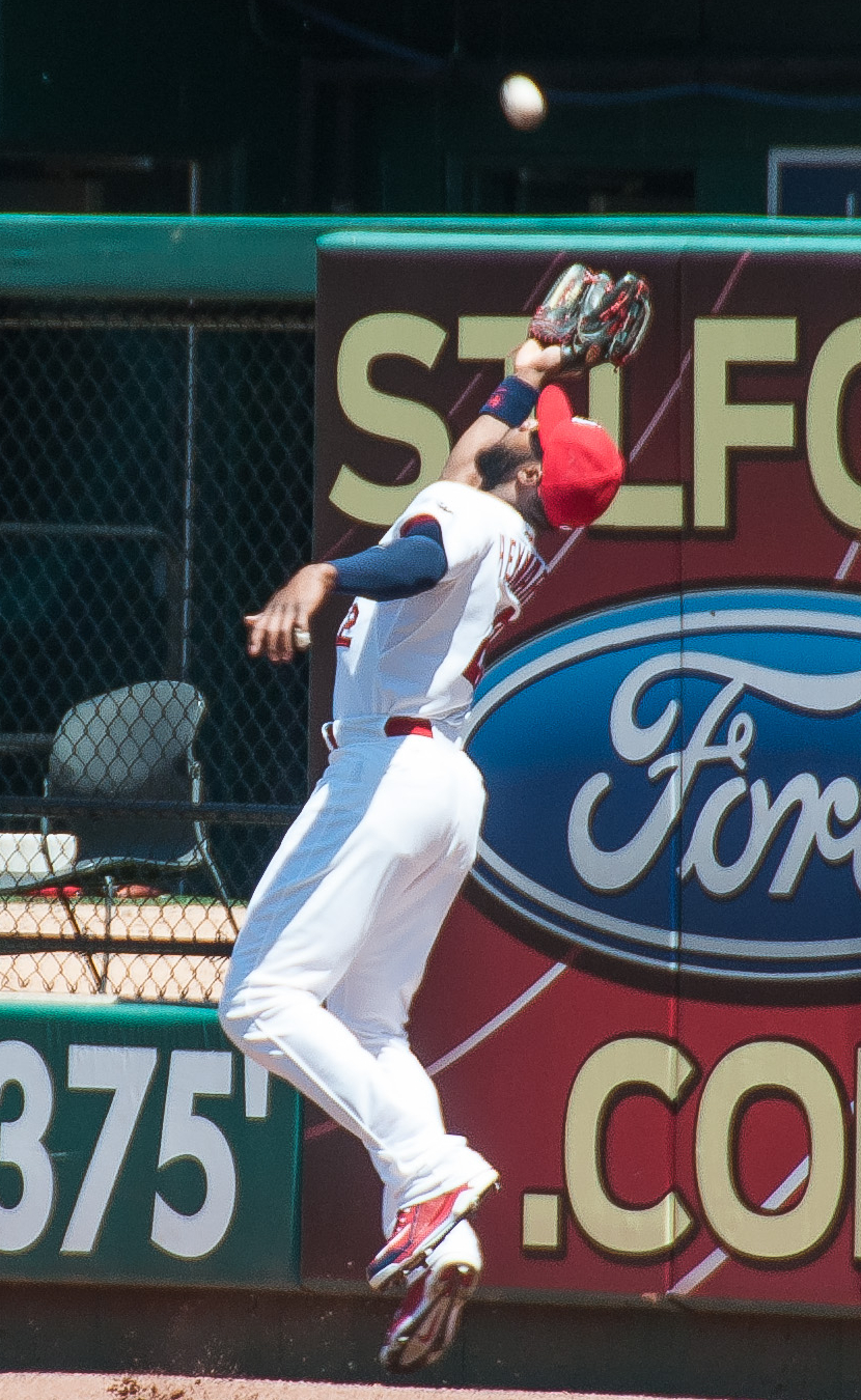 Jason Heyward